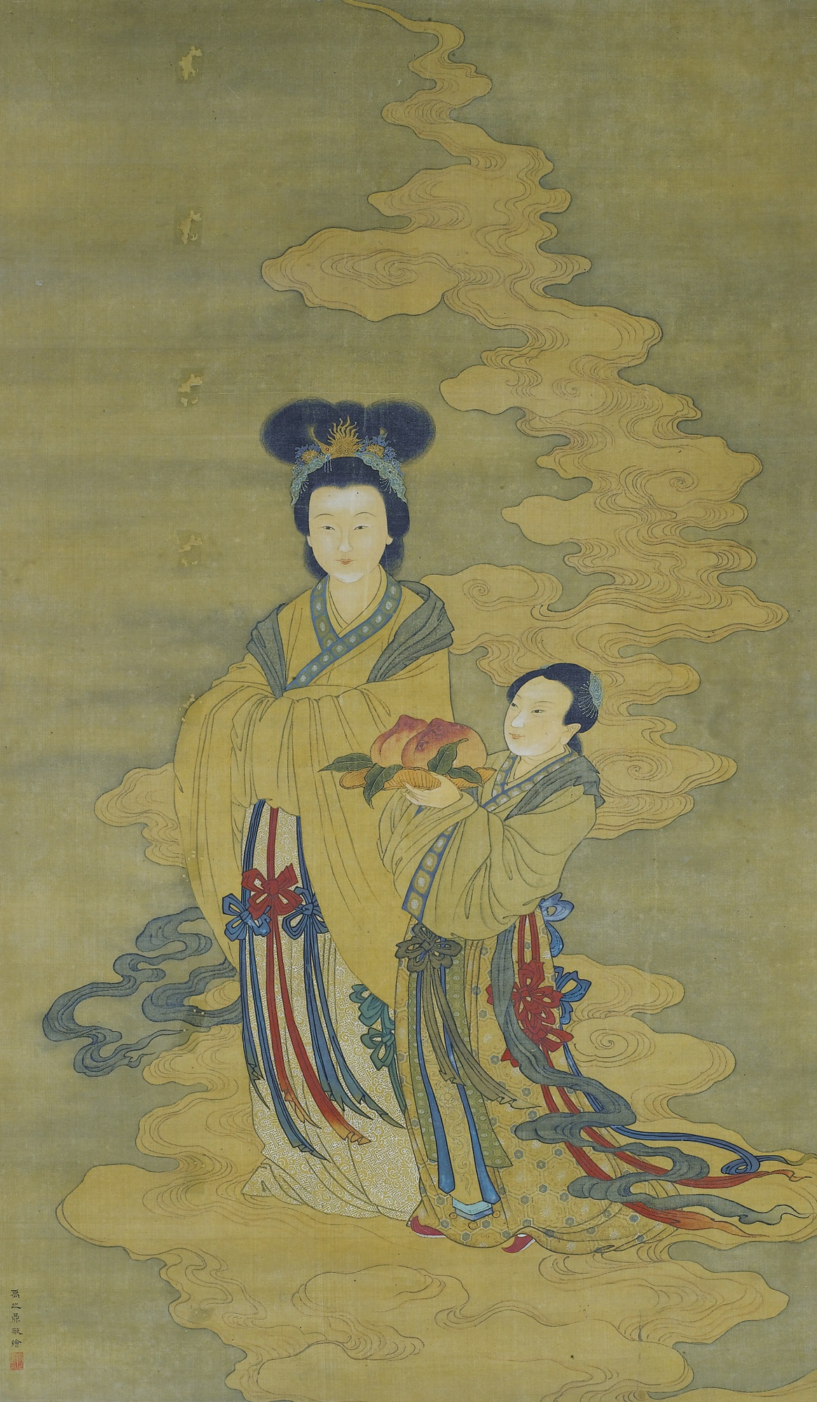 Painting of Xi Wangmu (The Queen Mother of the West), with apocryphal signature of Yu Zhiding